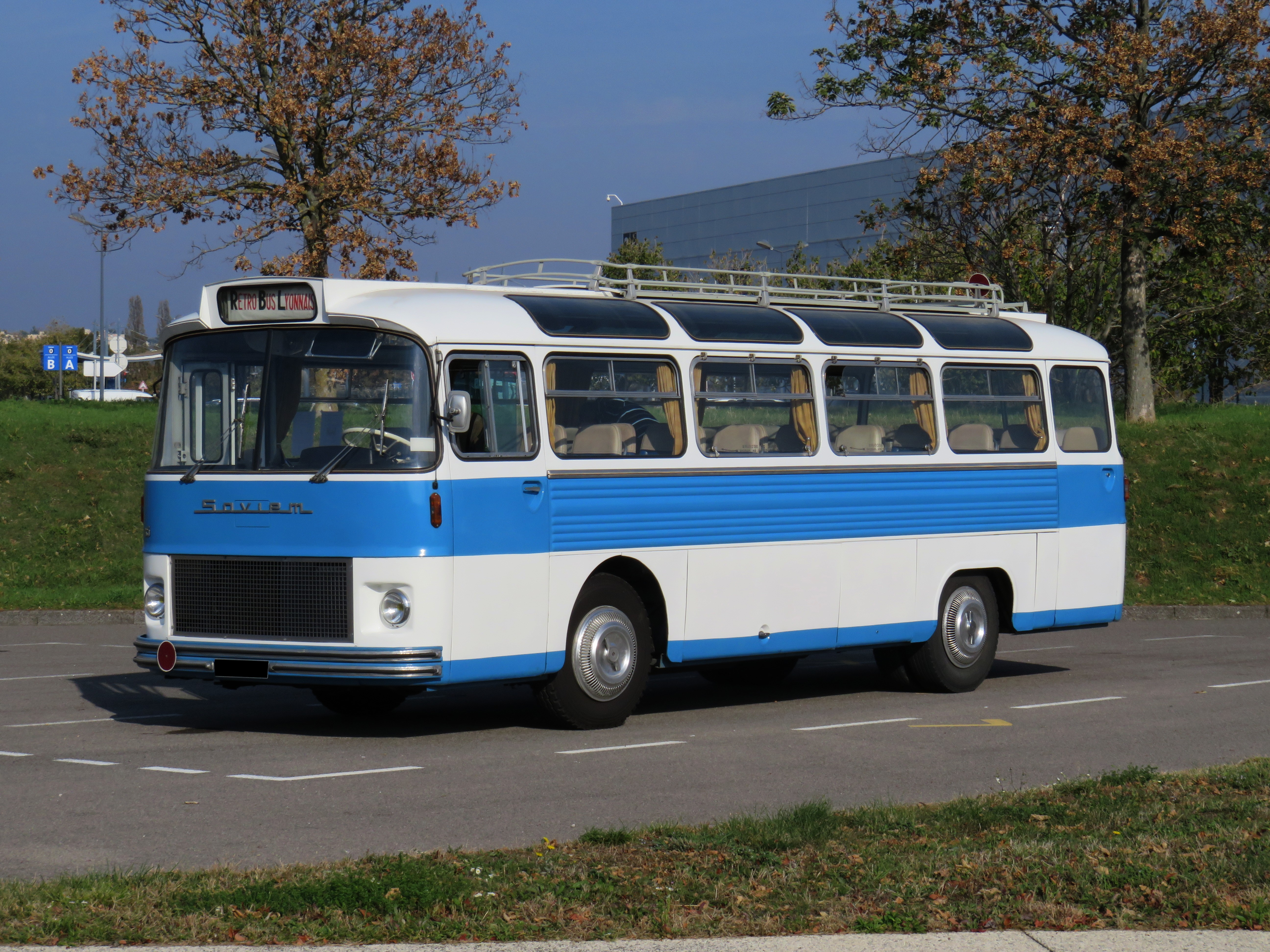 A Saviem SC5 (former Autocars Merle and Autocars Pascal, conserved by the association Rétro Bus Lyonnais) parked in front of Eurexpo (Chassieu, France) on October 19, 2018.